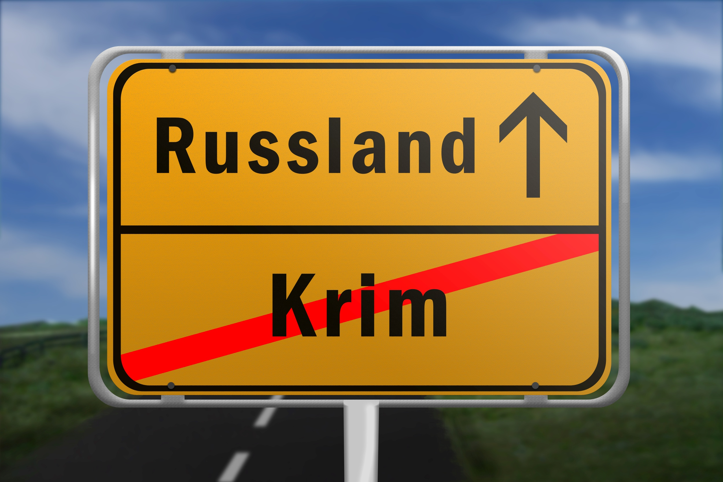 This is a cool symbol picture for annexation. Krim, Russia